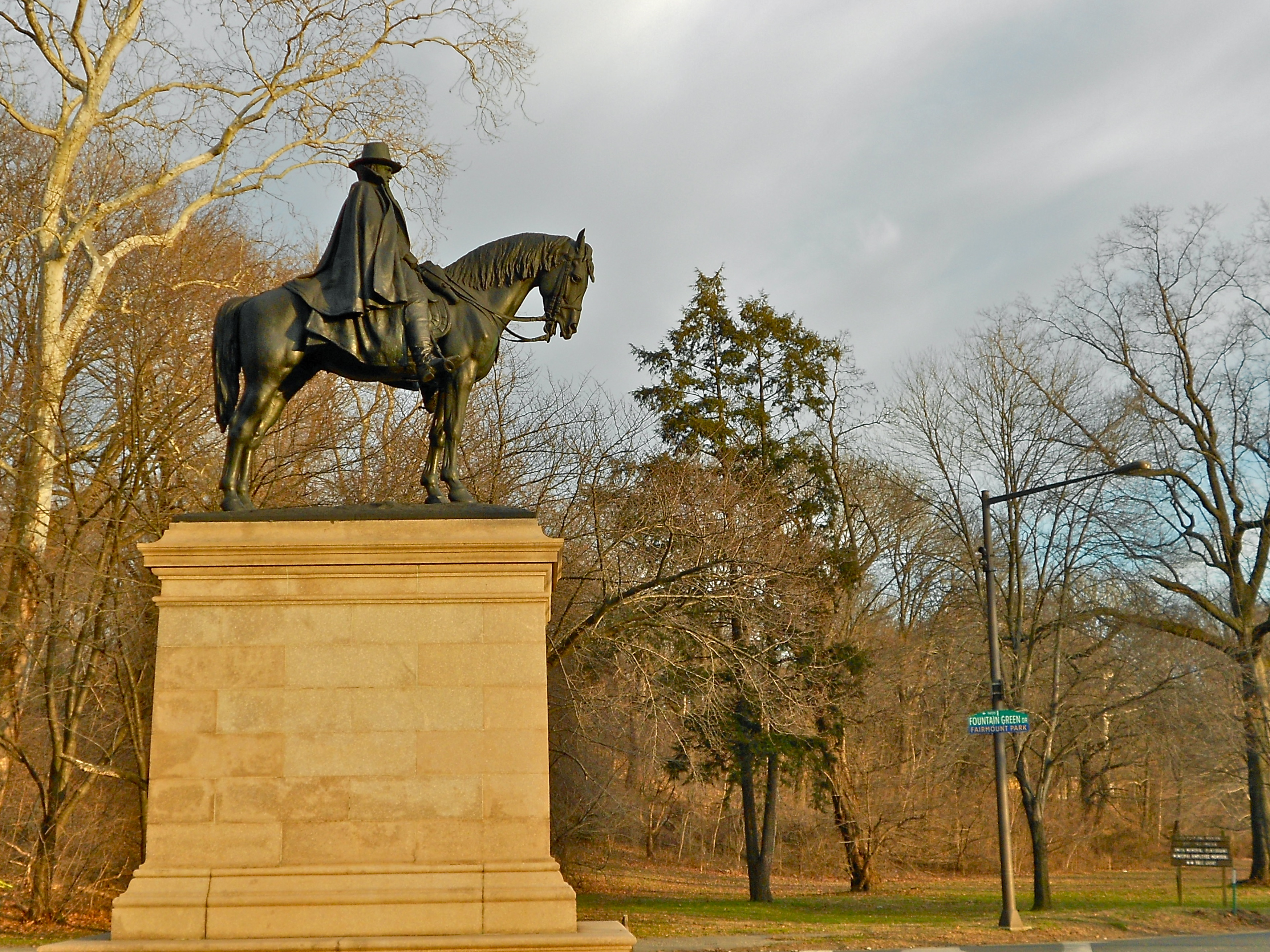 Sculpture of General Ulysses S. Grant by Daniel Chester French, dated 1898, on Kelly Drive (East River Road) Bronze, 174 inches in height. Owned by City of Philadelphia.